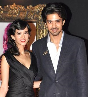 Saqib Saleem and Saba Azad at JAB TAK HAI JAAN premiere